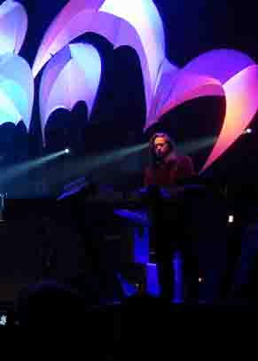 Oliver Wakeman with Yes on stage at Lifestyles Pavilion in Columbus, Ohio